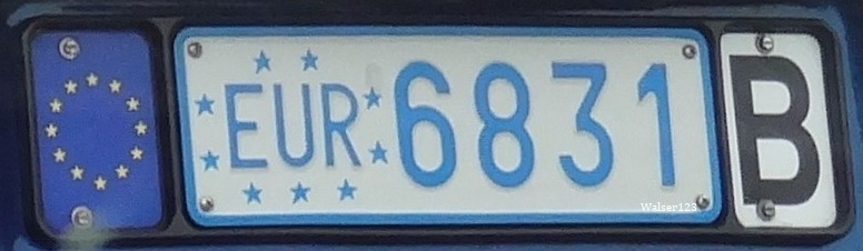 1975-2000 EU license plate, seen in Dortmund, Germany, 2012